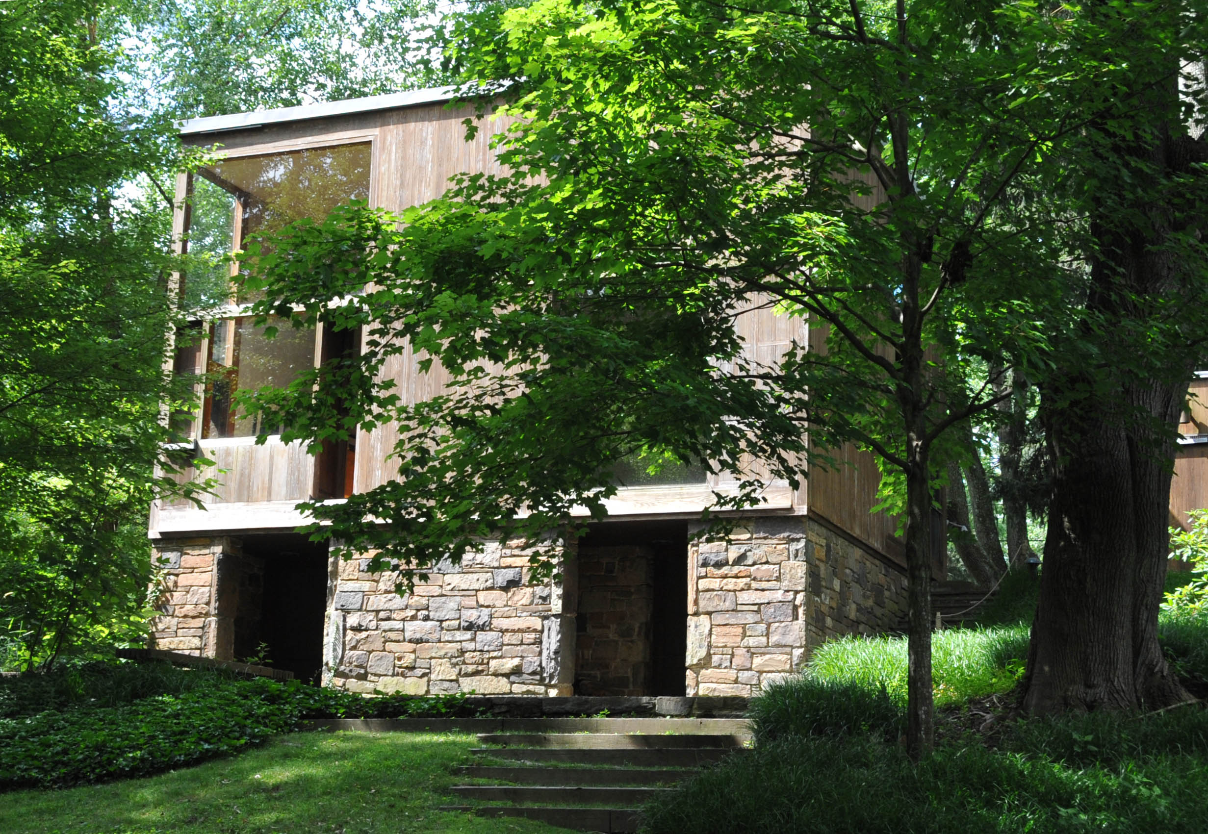 VIEW OF THE HOUSE FROM THE CREEK SIDE